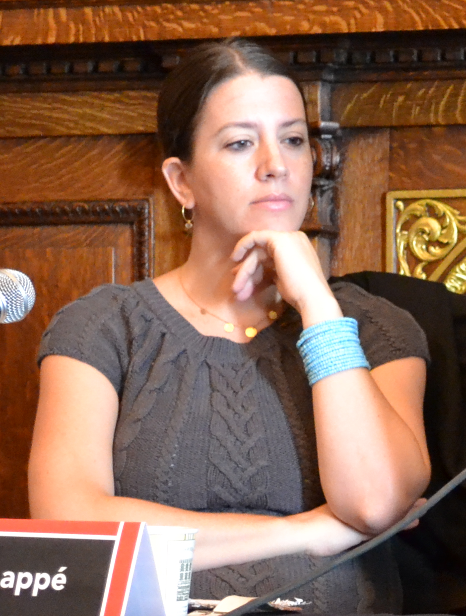 Extreme Weather, Scare Resources and Climate Change Brooklyn Book Festival